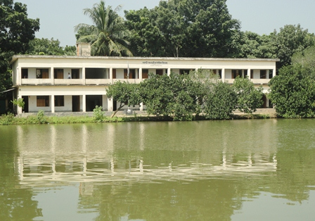 academic building of bakri High school